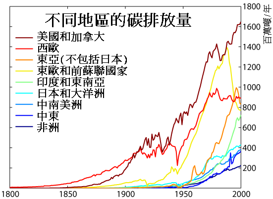 该图翻译自Image:Carbon Emission by Region.png